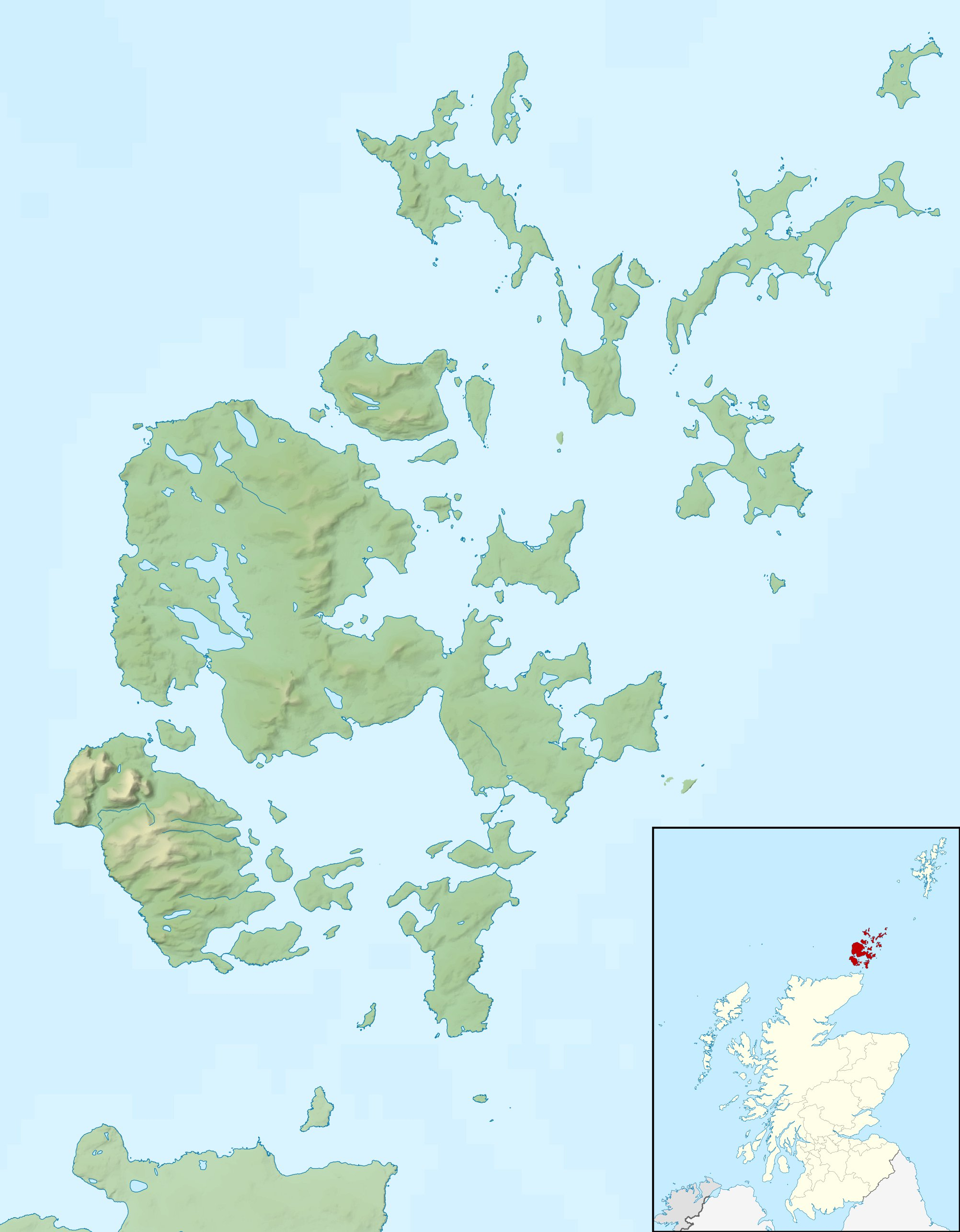 Relief map of the Orkney Islands (excluding Sule Stack and Sule Skerry), UK. Equirectangular map projection on WGS 84 datum, with N/S stretched 180% Geographic limits: West: 3.50W East: 2.35W North: 59.42N South: 58.60N